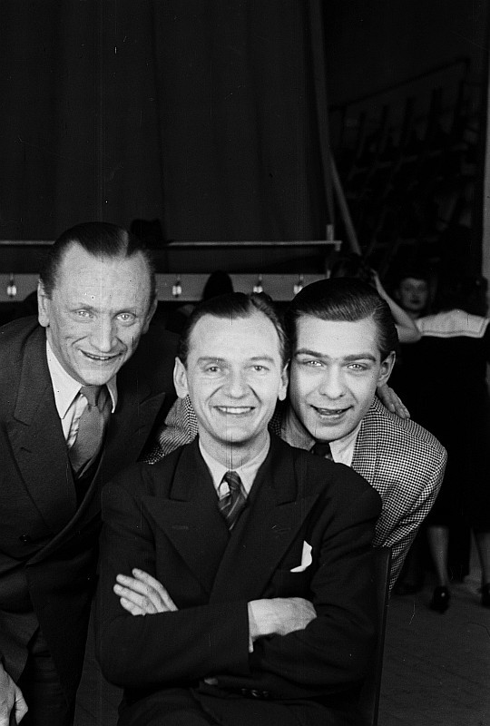 Original image description from the Deutsche Fotothek Gruppenportrait mit Peter Rebhuhn, Detlev Lais?, Bully Buhlan